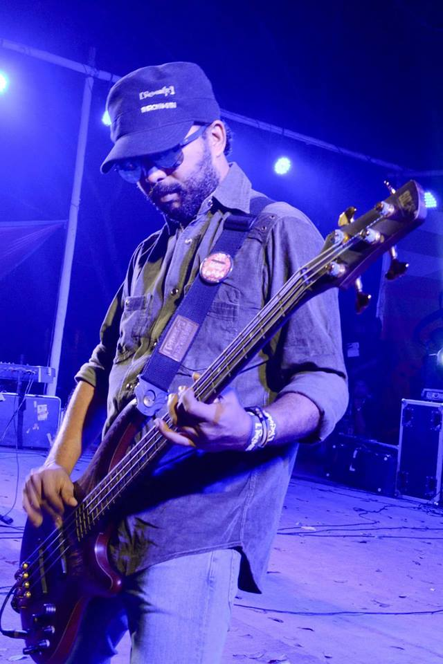 Ziaur Rahman Zia, Shironamhin.